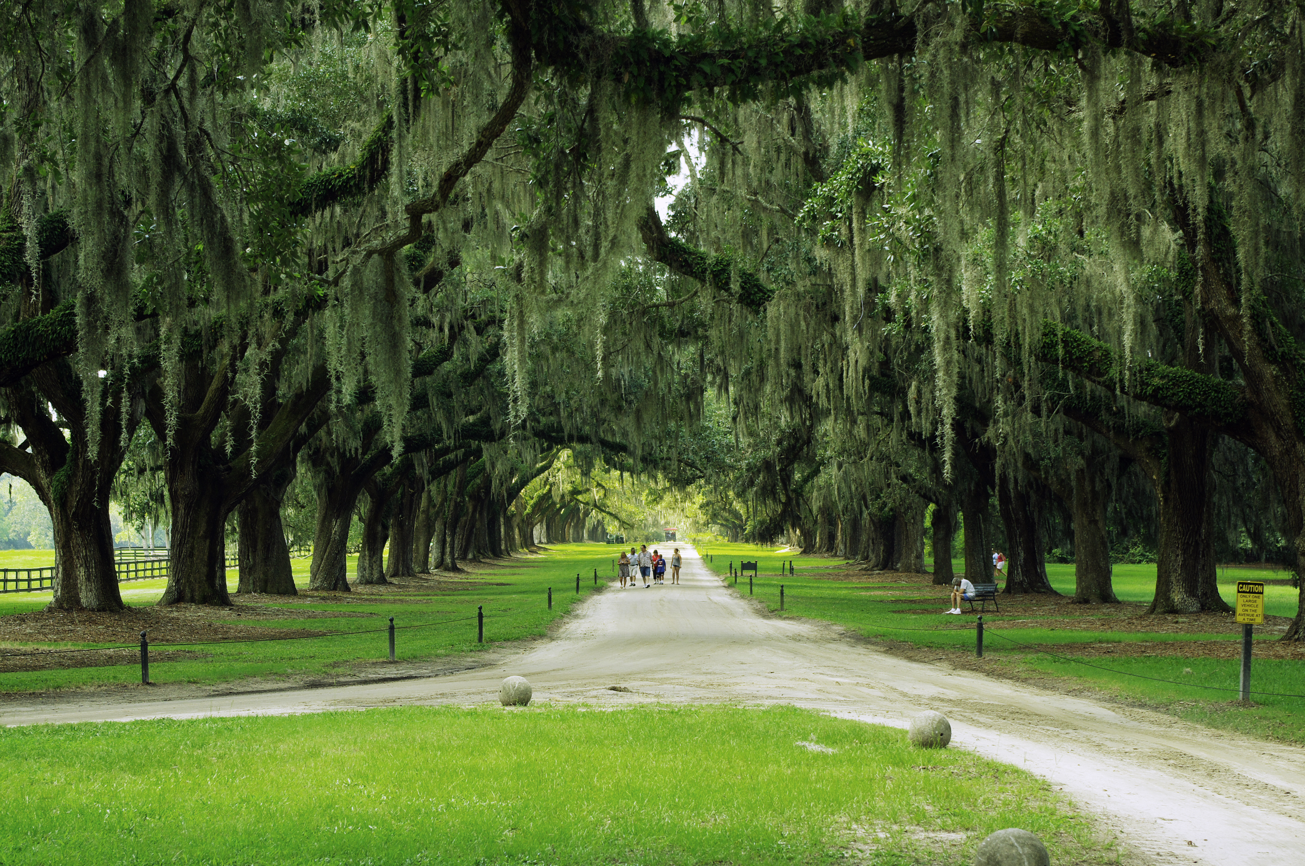 Avenue of Oaks at Boone Hall in Charleston, South Carolina.